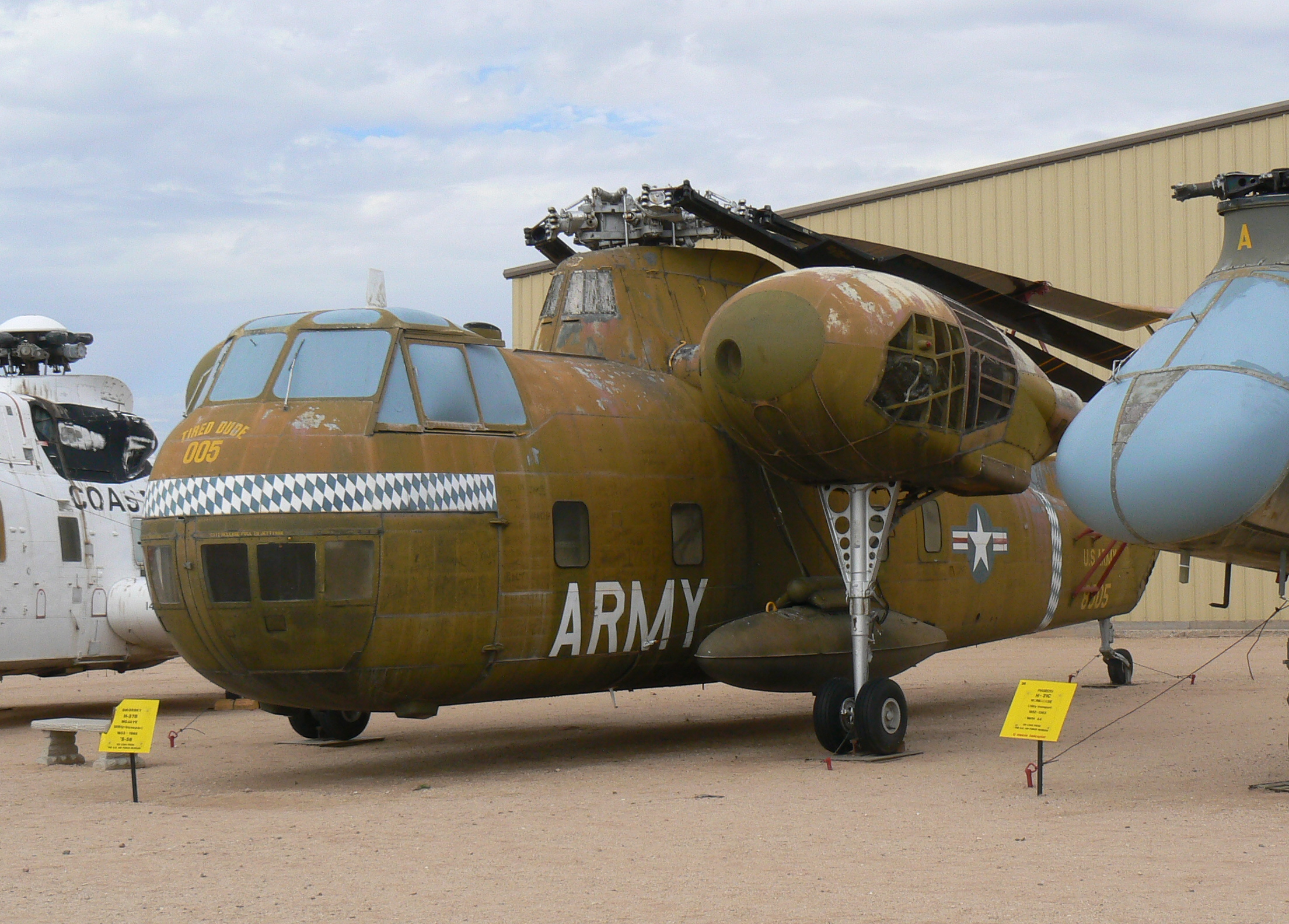 CH-37B (#56-1005) "Tired Dude" at the Pima Air & Space Museum